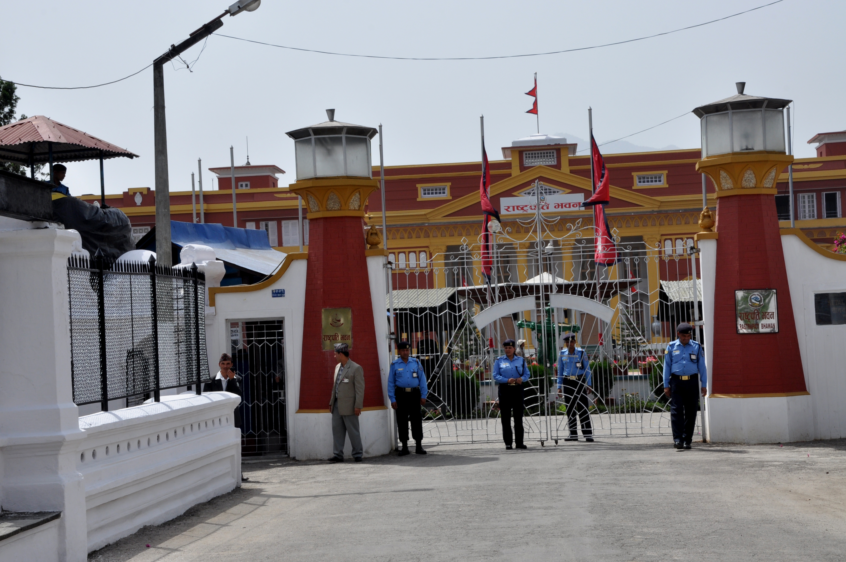 Shital Nivas (President Office of Nepal)